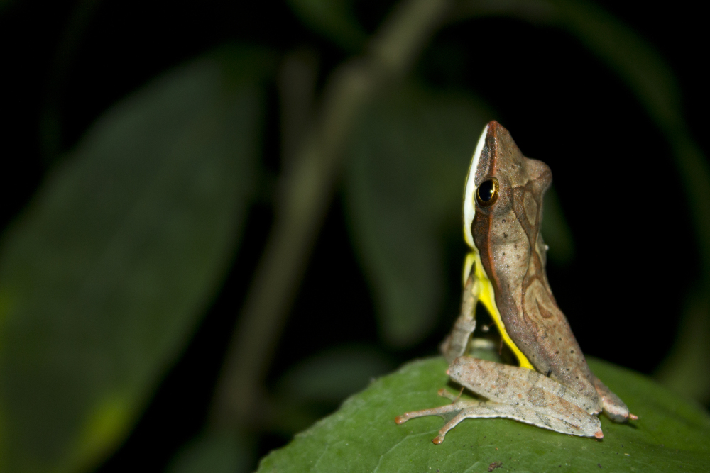 Photo of Günther's whipping frog taken in Nuwara Eliya